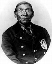 Chief Winnemucca. Chief of the Paiutes. He was also called Poito. Original Title from NARA: Winnemucca (The Giver), a Paviotso or Paiute chief of western Nevada; half-length, 1880